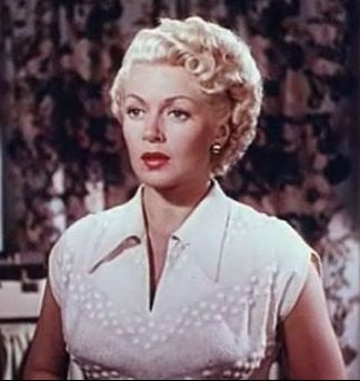 Cropped screenshot of Lana Turner from the trailer for the film Mr. Imperium